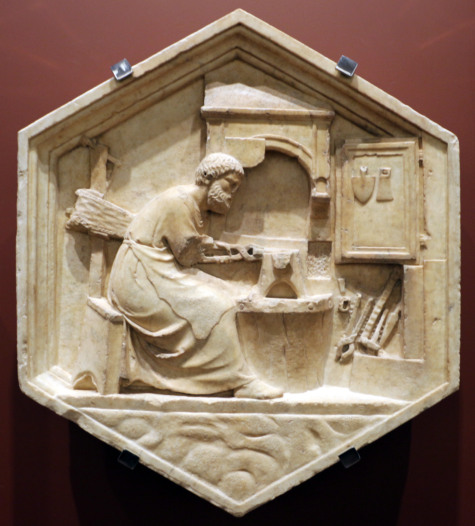 Reliefs of the Giotto's Belltower